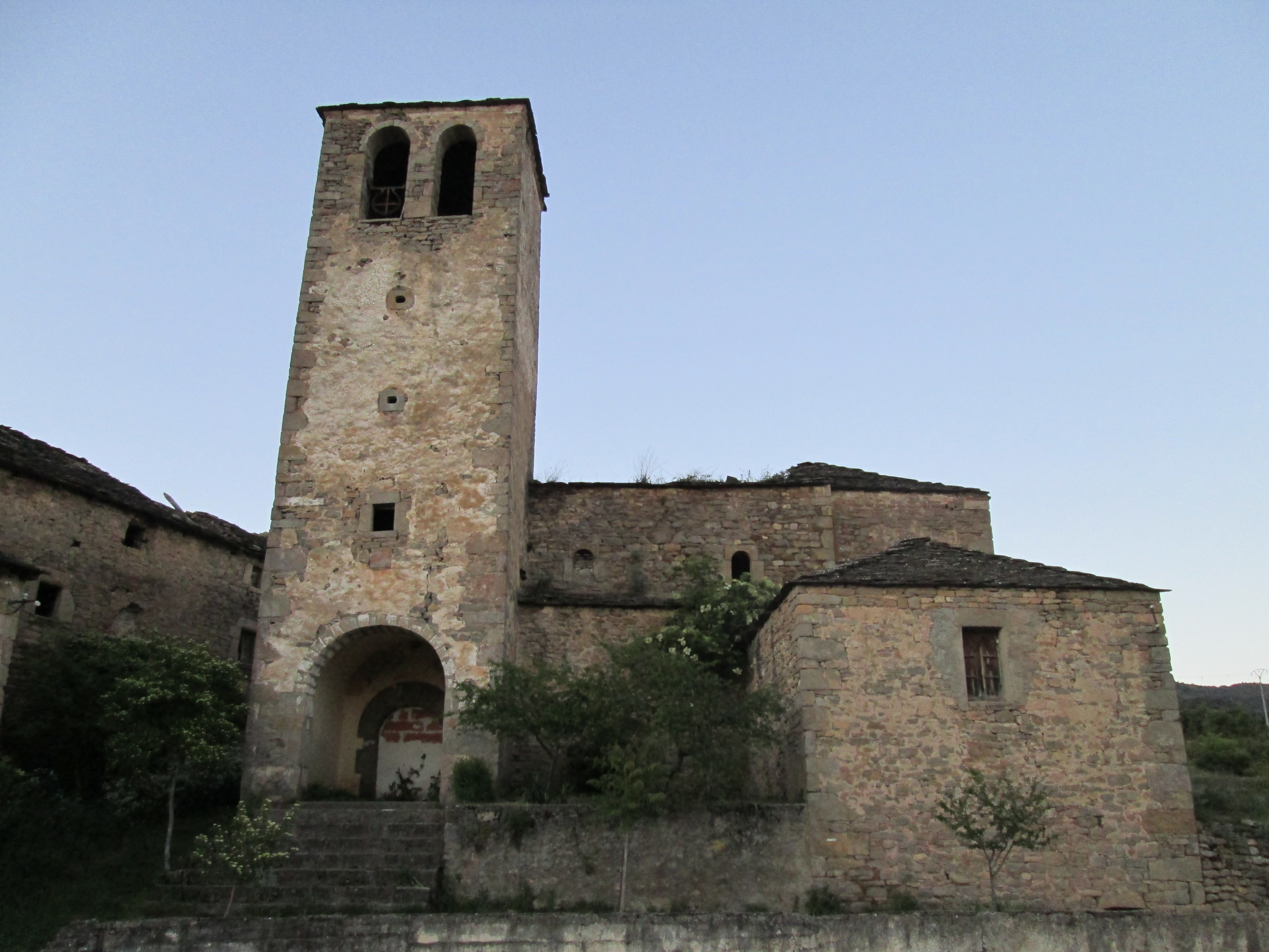 Church of Gillué, municipality of Sabiñanigo, Aragon (2014-05).